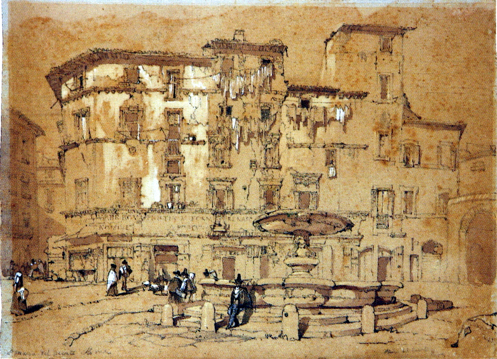 Piazza Santa Maria del Pianto, Rome. Pencil and wash, 34.4 x 45.7 cm